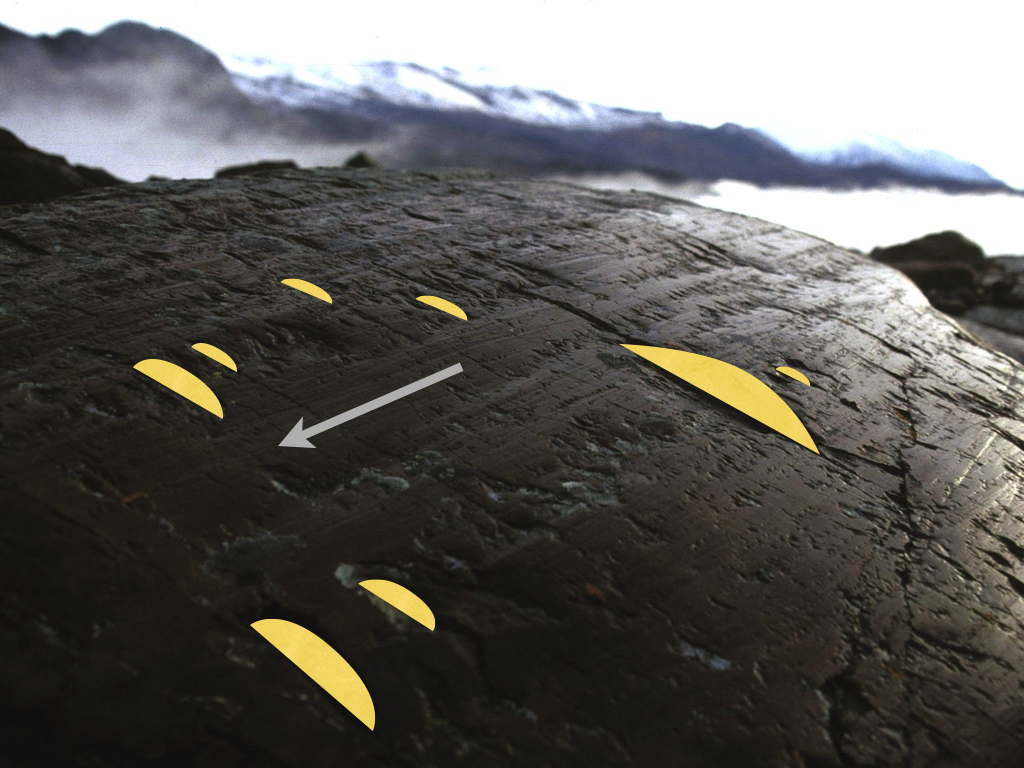 Scratches on polished rock surface made by glacier movement; Noa Lake, Greenland